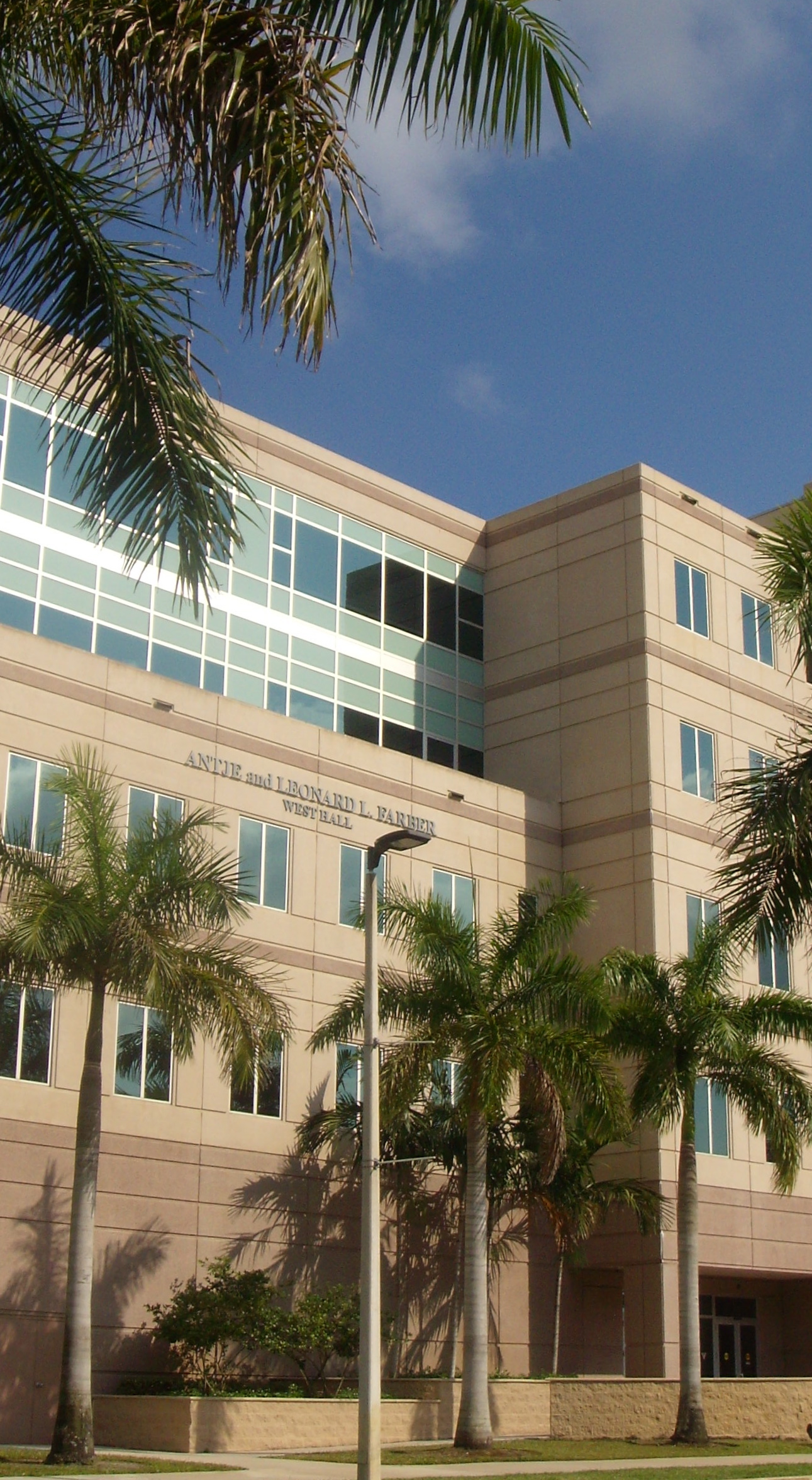 Farher West Hall, Nova Southeastern University.